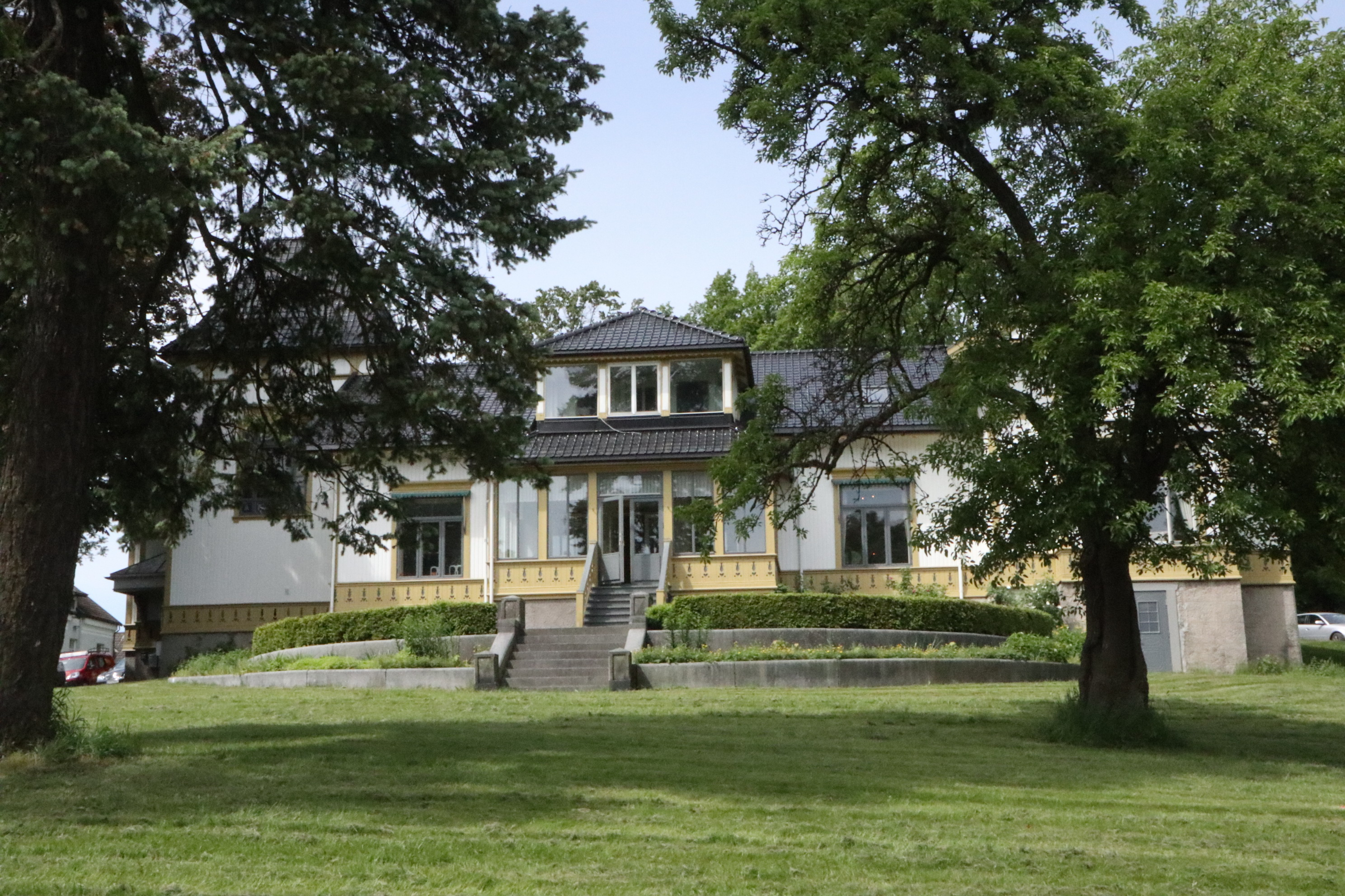 Villa Møllebakken in Tønsberg